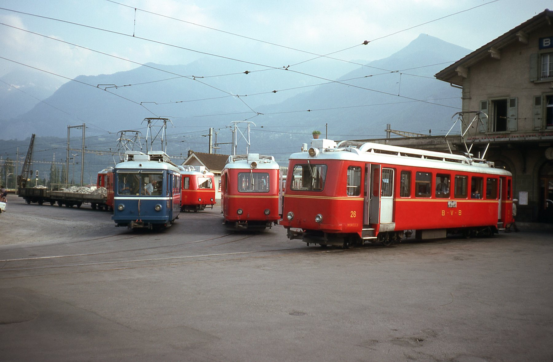 Train of the Bex Villard Bretaye rail-line